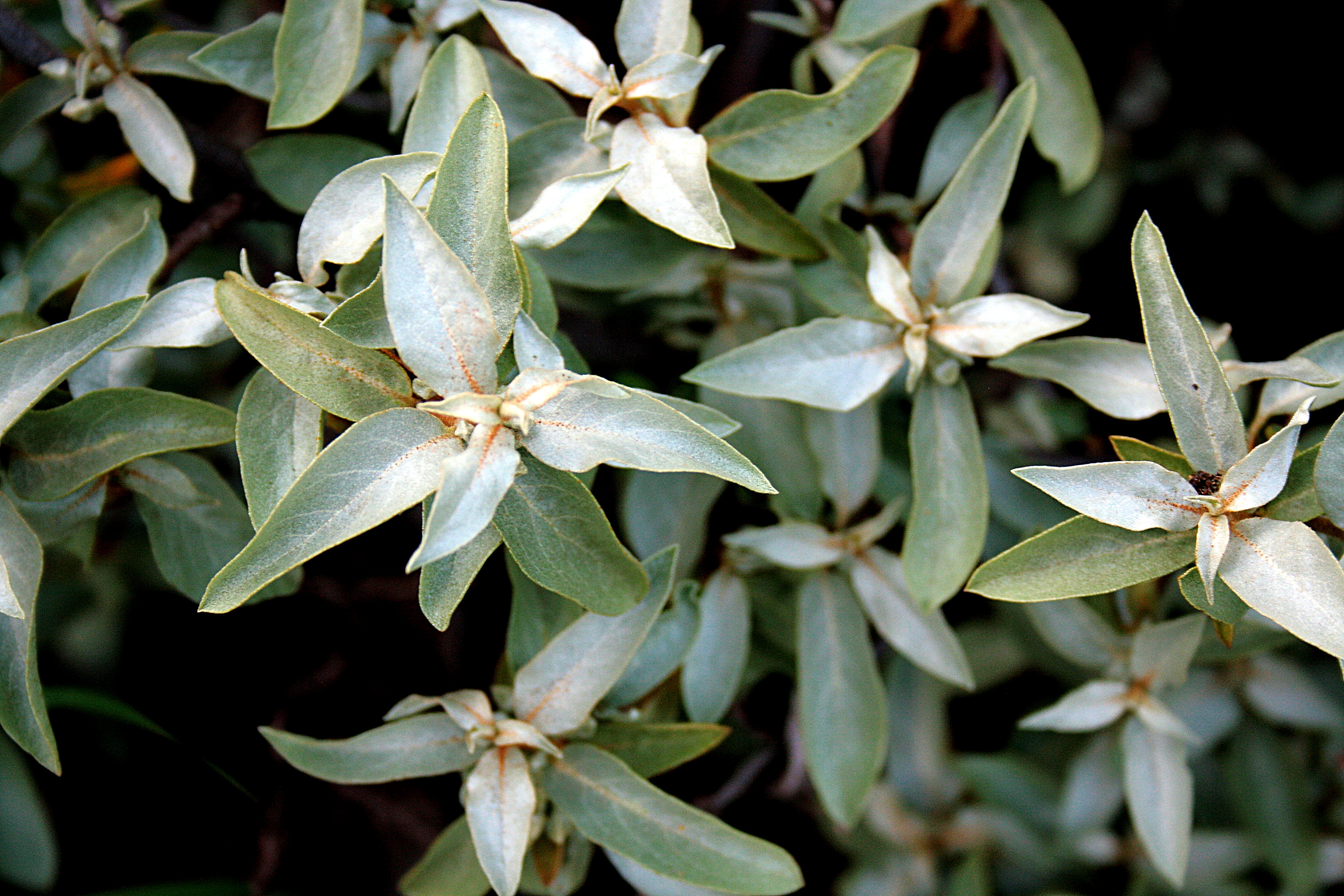 Ísland, Akureyri Botanical Gardens: Silverberry (Elaeagnus commutata)